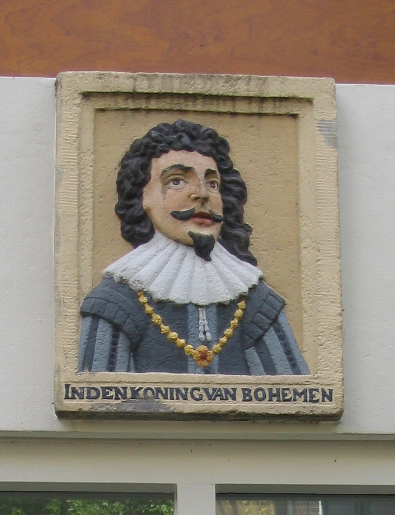 Gevelsteen "Koning van Bohemen" Egelantiersgracht 153-159, Amsterdam 12 September 2004